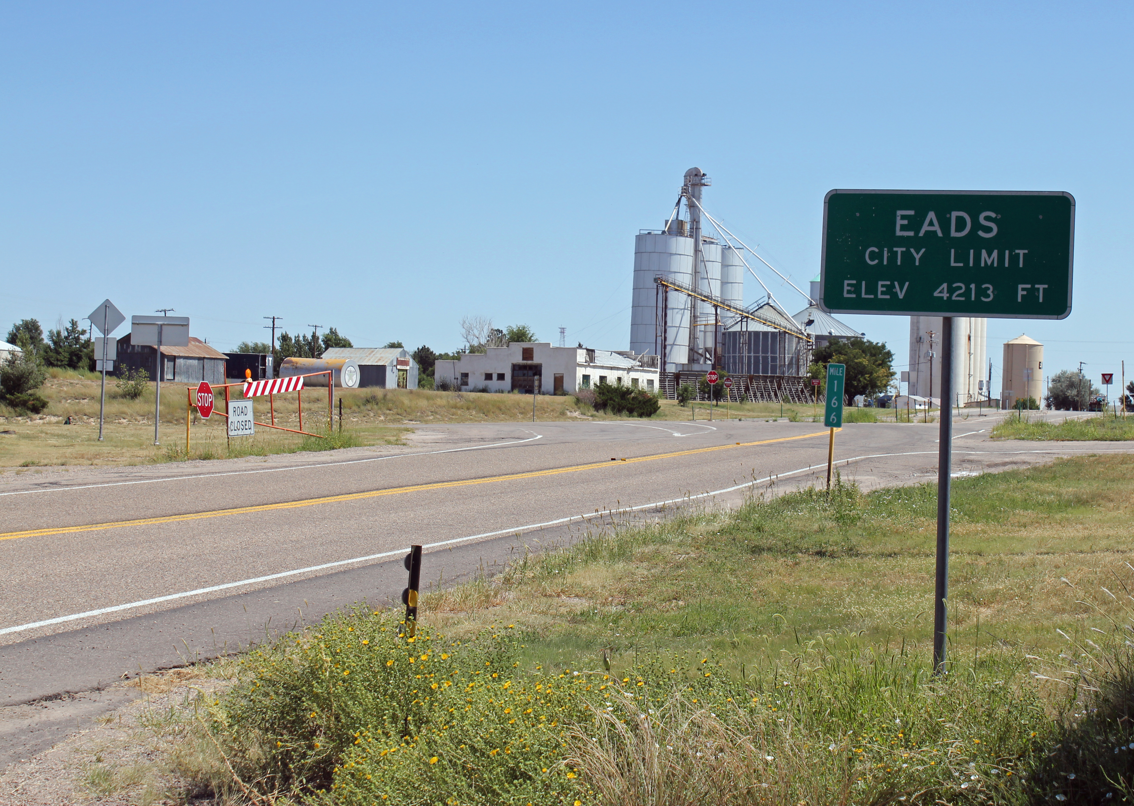 Eads, Colorado.